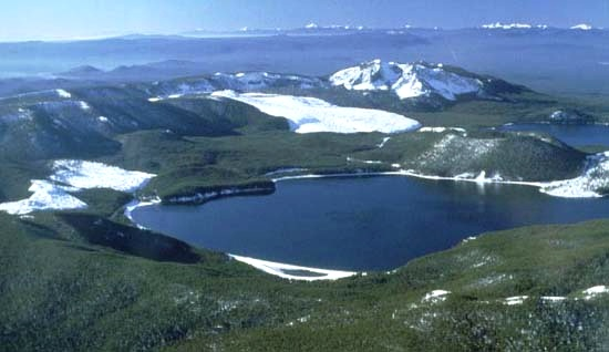 Aerial view of Newberry Caldera from northeast with East Lake in foreground. At Newberry National Volcanic Monument, Oregon